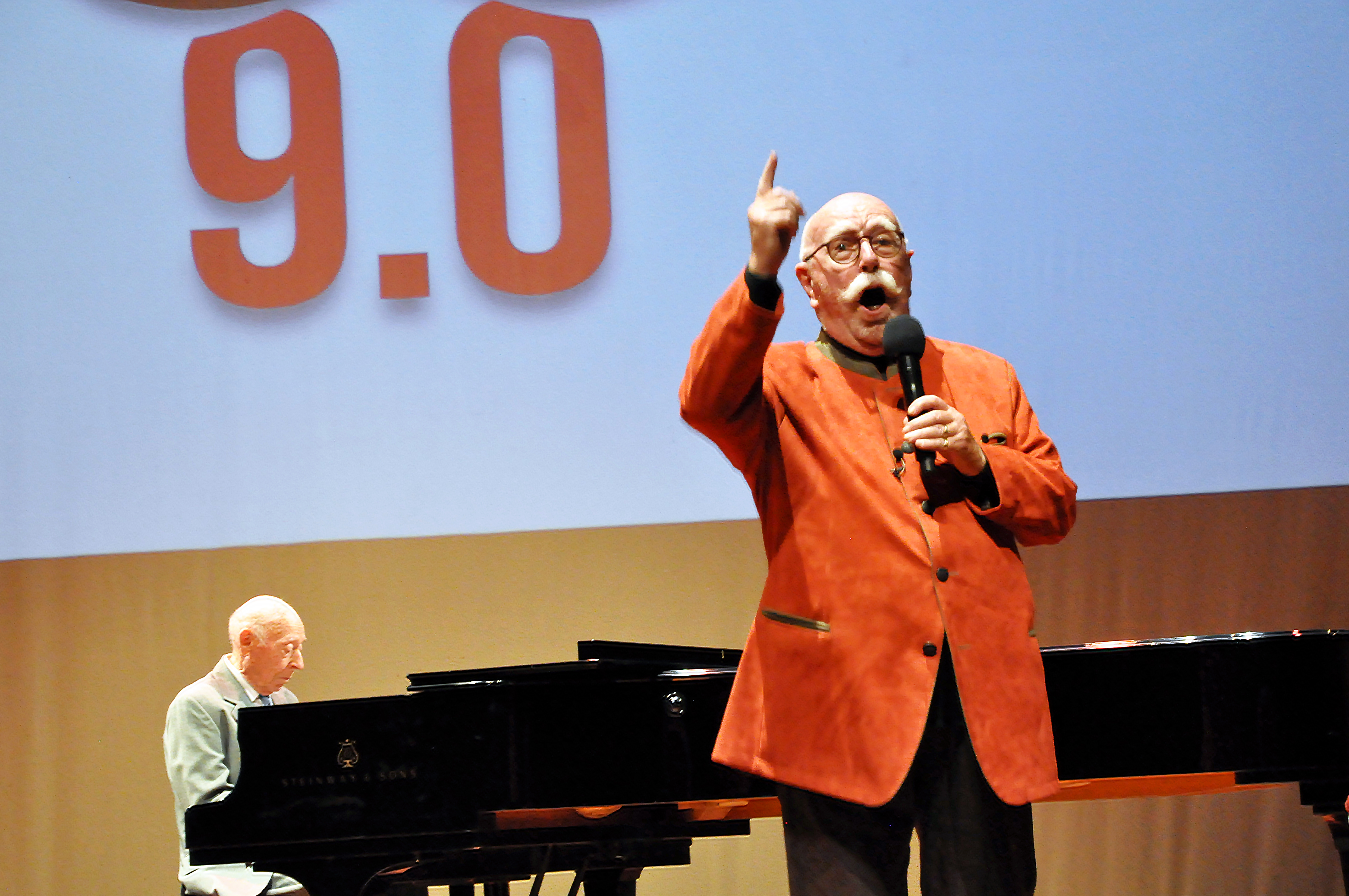 Jean-Paul Rouland, accompanied on the piano by Hubert Degex, May 28, 2018, on the Great Stage of Chesnay.